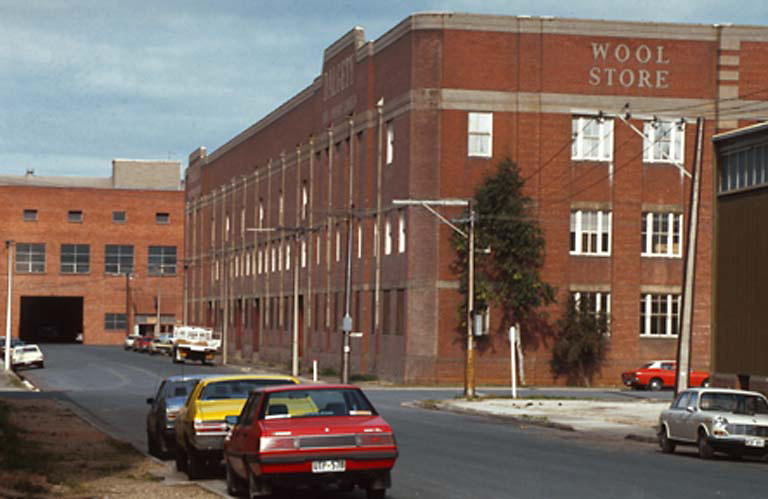 Dalgety & Company Ltd., wool store, Baker Street, Port Adelaide